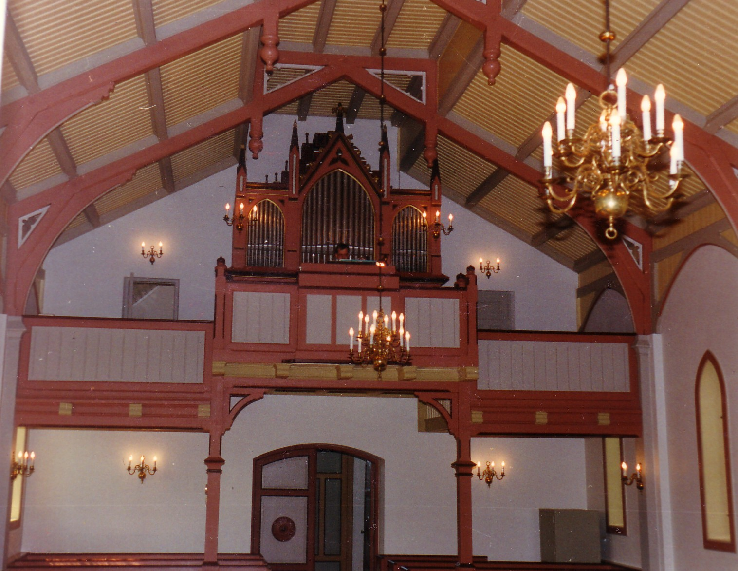 The 5-stop Olsen & Jørgensen organ of Veme Church near Hønefoss, South Norway.